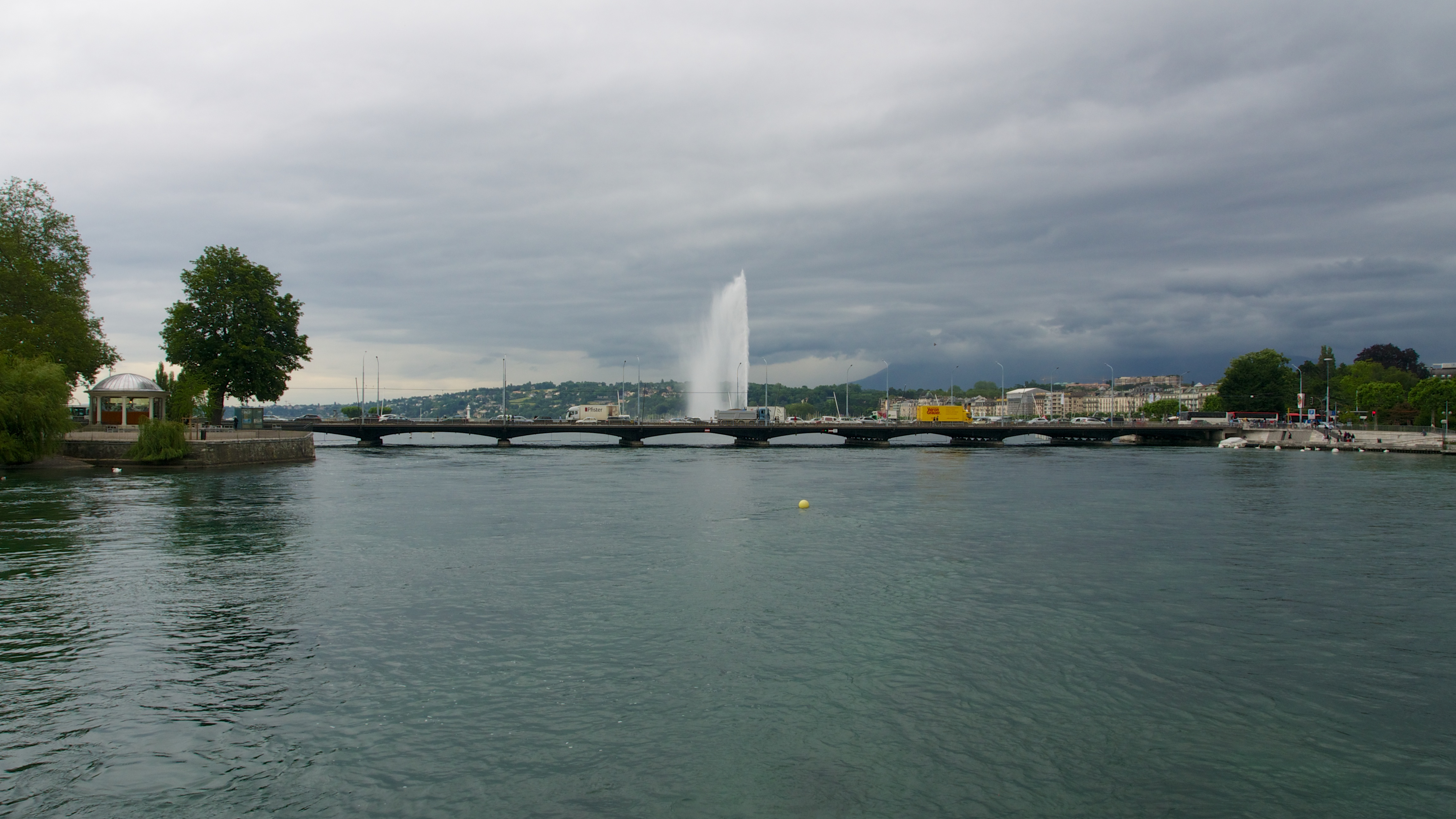 Mont Blanc Bridge in Geneva, Switzerland. View from the Rhône